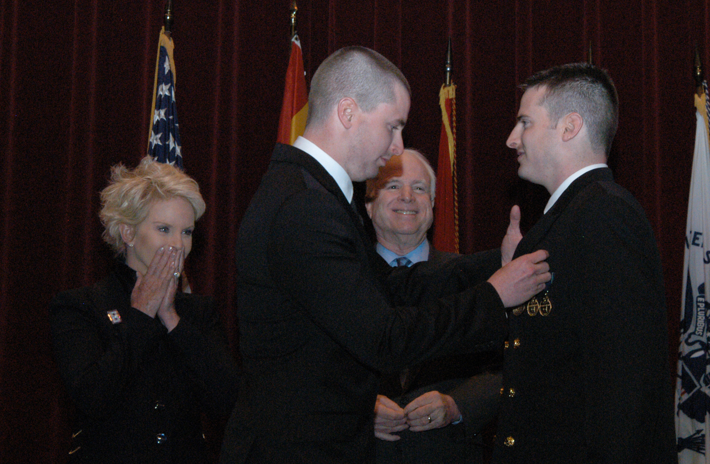 NAVAL AIR STATION WHITING FIELD, Fla. (Jan. 28, 2011) Sen. John McCain and his wife, Cindy, watch as their son, Jimmy McCain, pins Naval aviator's wings on his brother, Ensign John S. McCain IV, during a ceremony at Naval Air Station Whiting Field. Ensign McCain was among 16 helicopter flight school graduates. (U.S. Navy photo by Lt. j.g. Megan Dooner/Released)